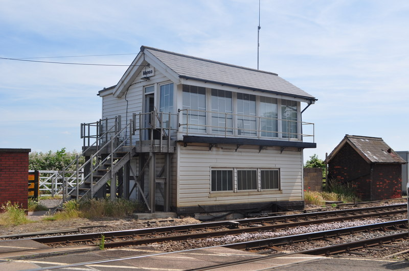 Manea Signal Box, near to Manea, Cambridgeshire, Great Britain. Manea Signal Box stands next to the railway station, part of the Ely to Peterborough line. It is a very important secondary route, especially for freight.